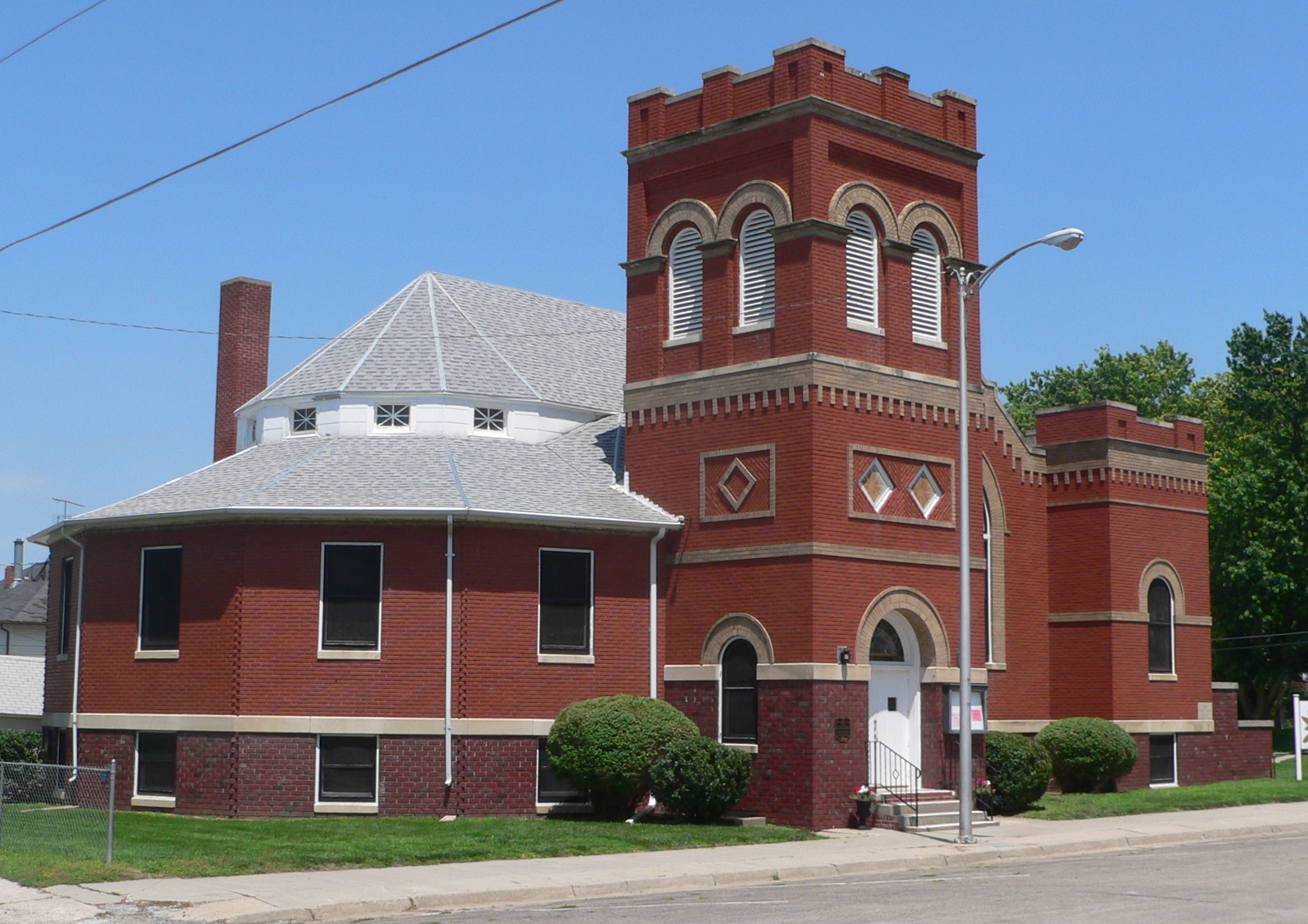 First United Presbyterian Church, now Historic Presbyterian Community Center for Arts & Education, located at northwest corner of 4th and Nebraska Streets in Madison, Nebraska; seen from the southwest.